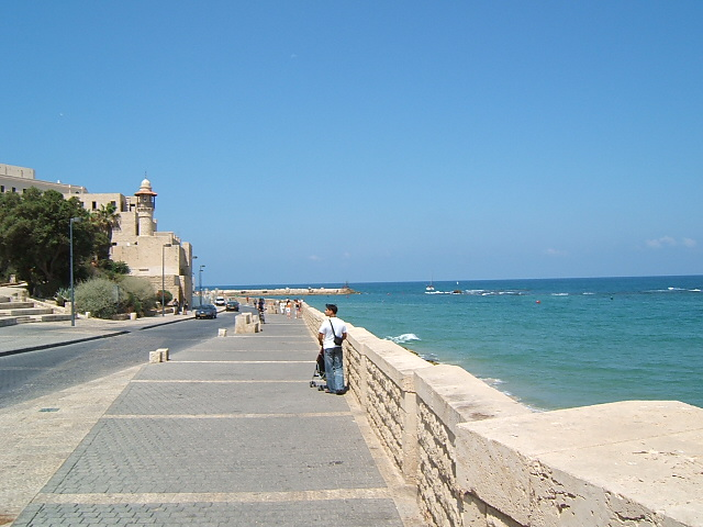 Yaffo sea wall boardwalk.